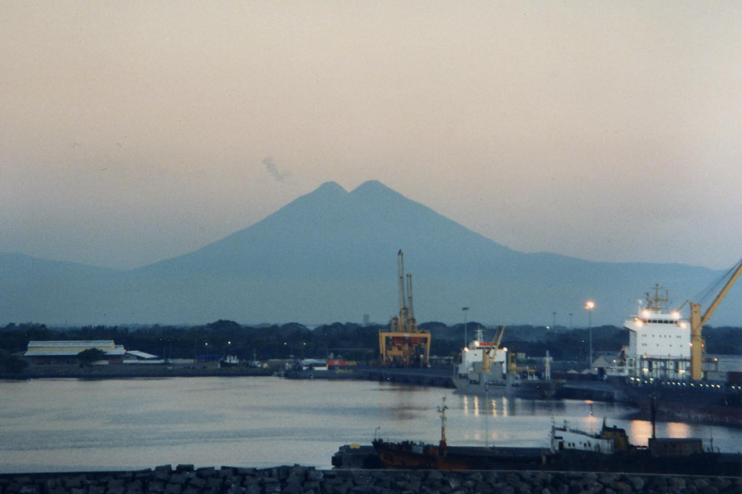 Puerto Quetzal in Guatemala with Volcán de Fuego behind